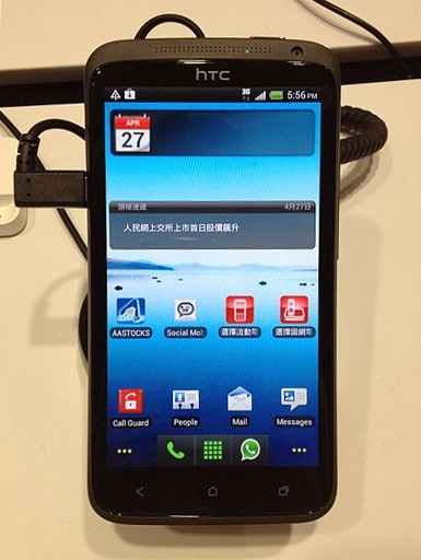 HTC One X running Android 4 Ice Cream Sandwich with Chinese language setting as shown in Smartone shop in Hong Kong